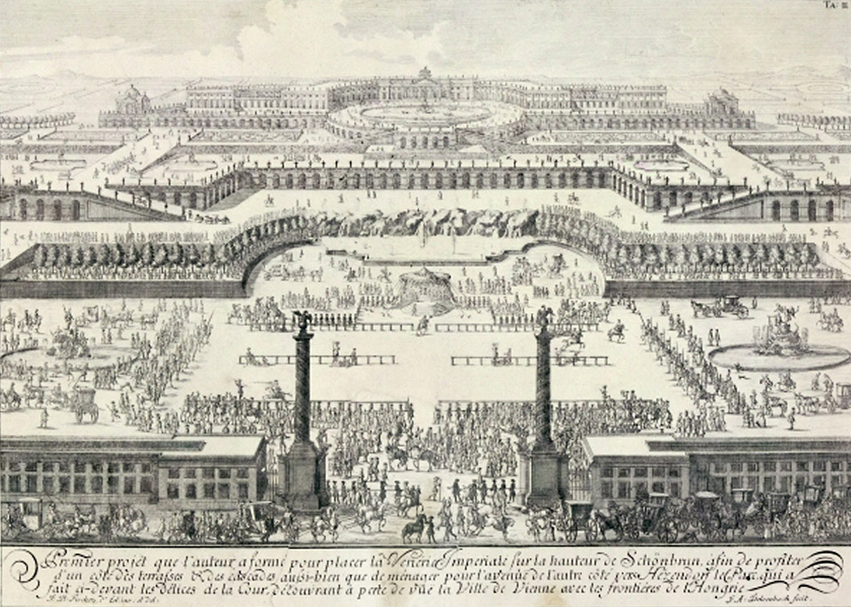 Drawing of Architecture, copperplate engraving, very probably from "Entwurf einer historischen Architektur". Shows Fischer v. Erlach's first design for Schönbrunn Palace, 1688, which was not financially affordable.